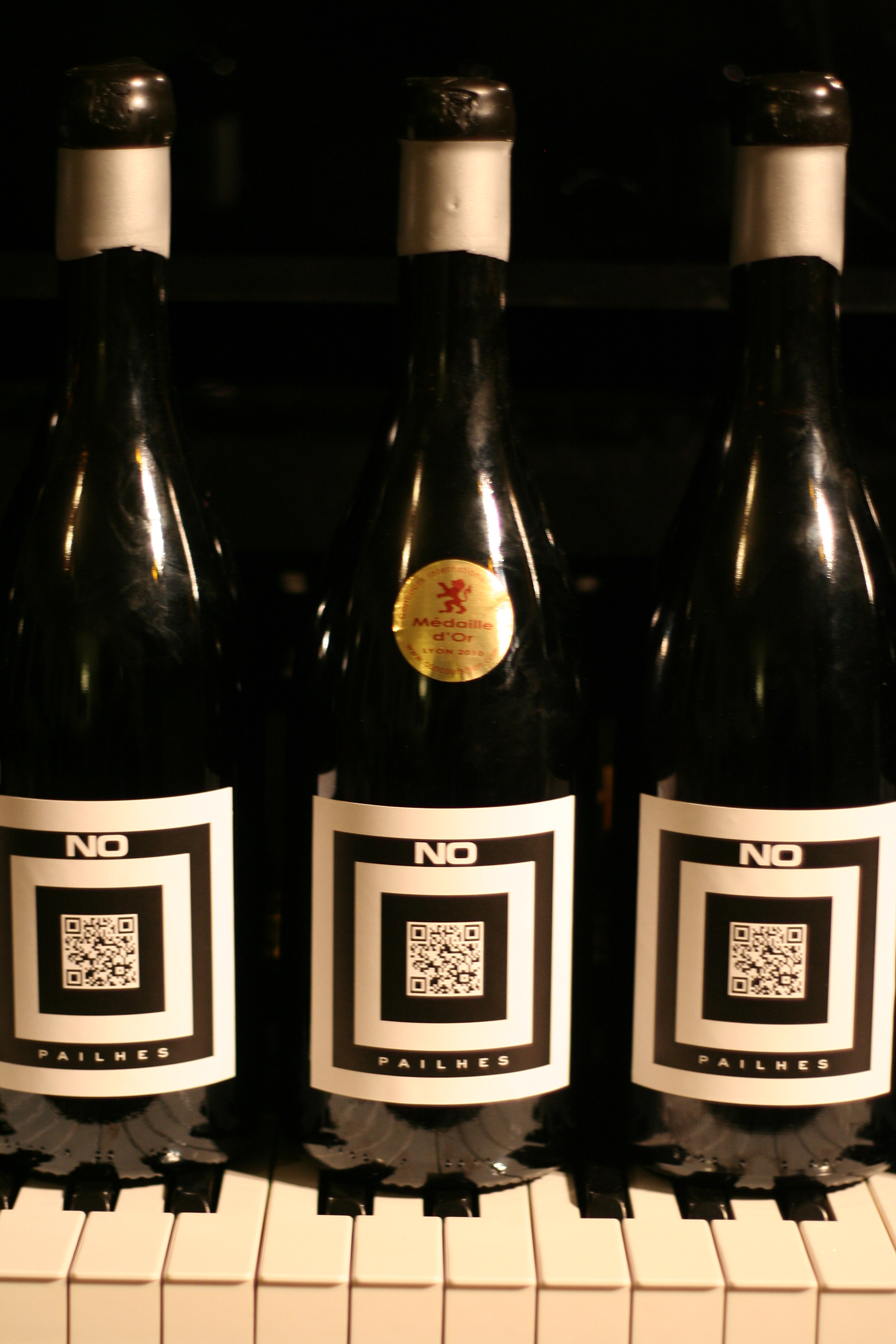 Wine No of Domaine de Pailhès Gold medal 2010 concours de Lyon